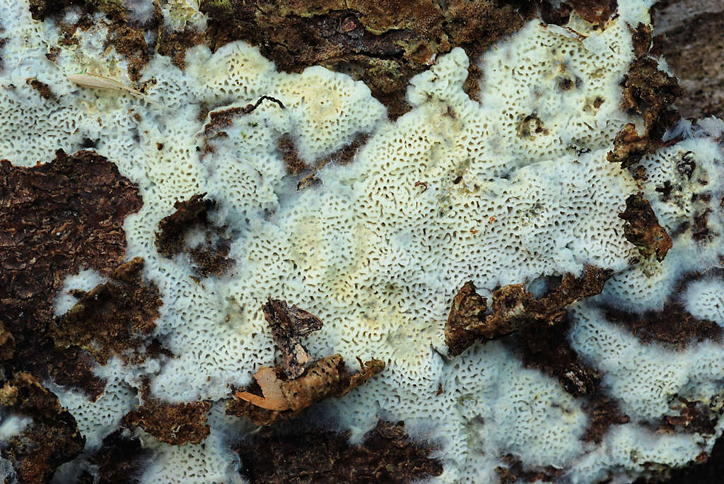 fruiting body in fresh state